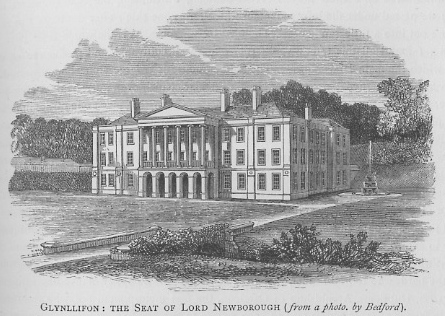 Glynllifon,Caernarfonshire. Thomas Nicholls “Annals and Antiquities of the Glynllifon,CaernarfonshireCounties and County Families of Wales, Longmans, London 1872. Vol 1, 315